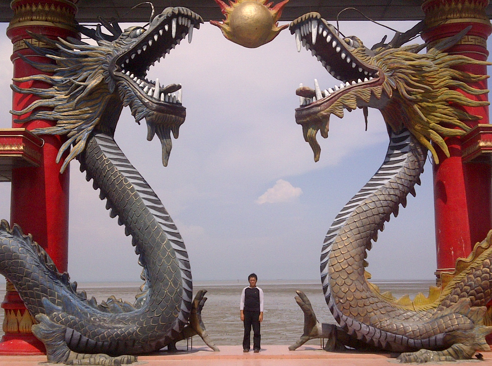 A visitor of Sanggar Agung Temple takes a picture under the dragon statues, Surabaya-Indonesia